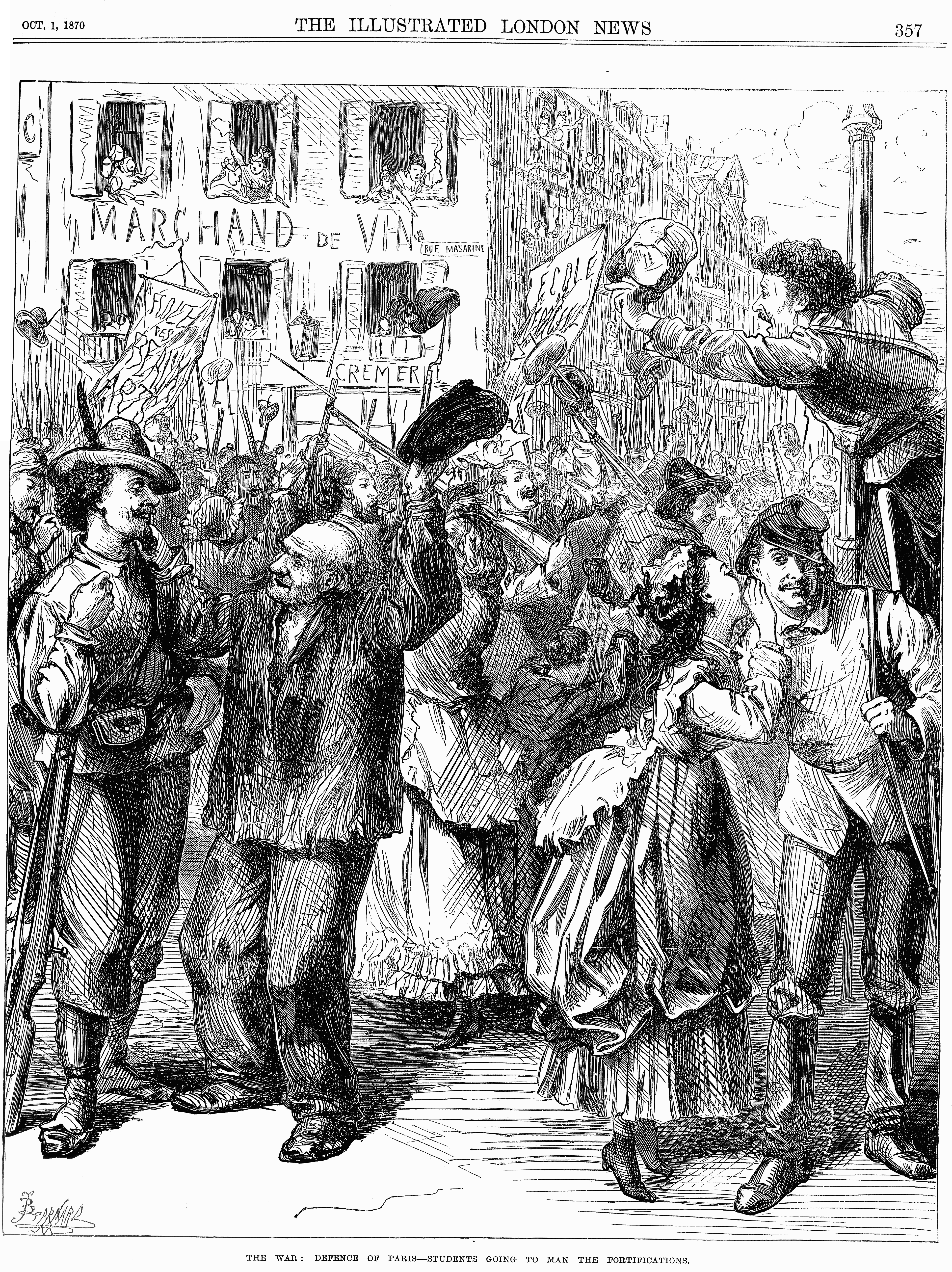 "The [Franco-Prussian] War: Defence of Paris-Students Going to Man the Barricades" One of the iconic images of the Franco-Prussian War. After the surrender of Napoleon III, the French Republic refused the German settlement terms, and the war was forced to continue. Paris was besieged, and people of all walks of life entered into its defence.